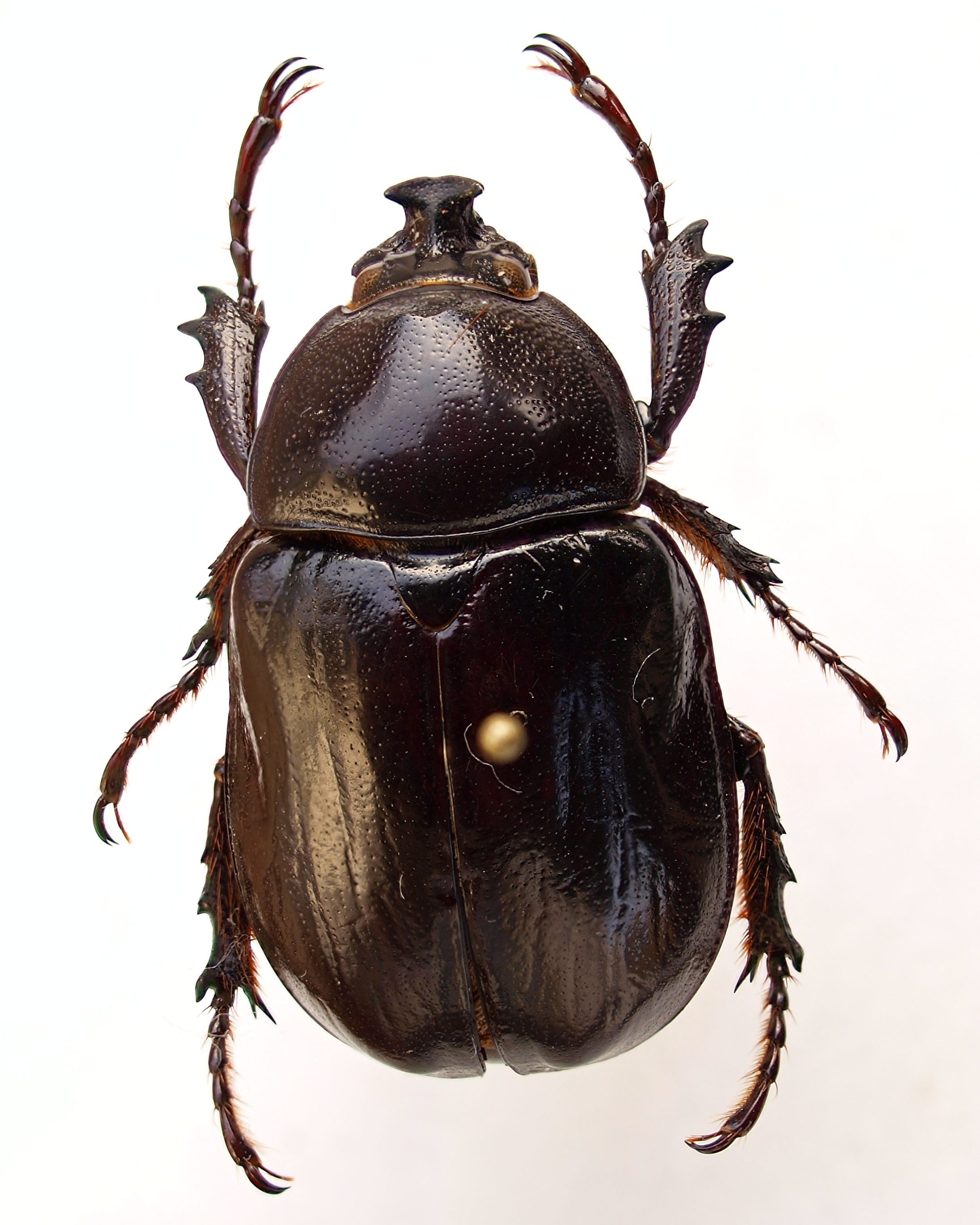 Xylotrupes inarmatus, male